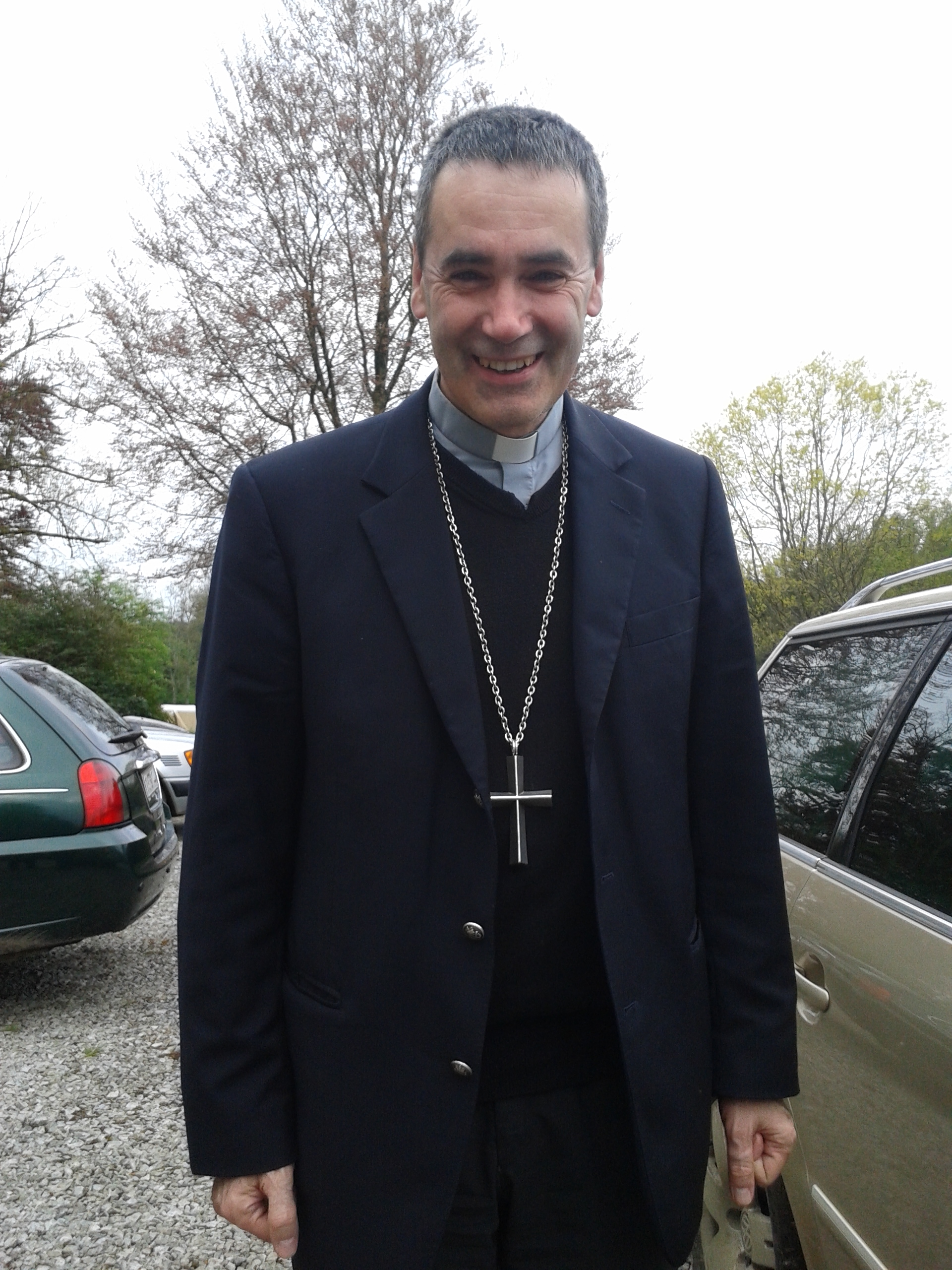 Mgr Jacques Habert, bishop of Séez